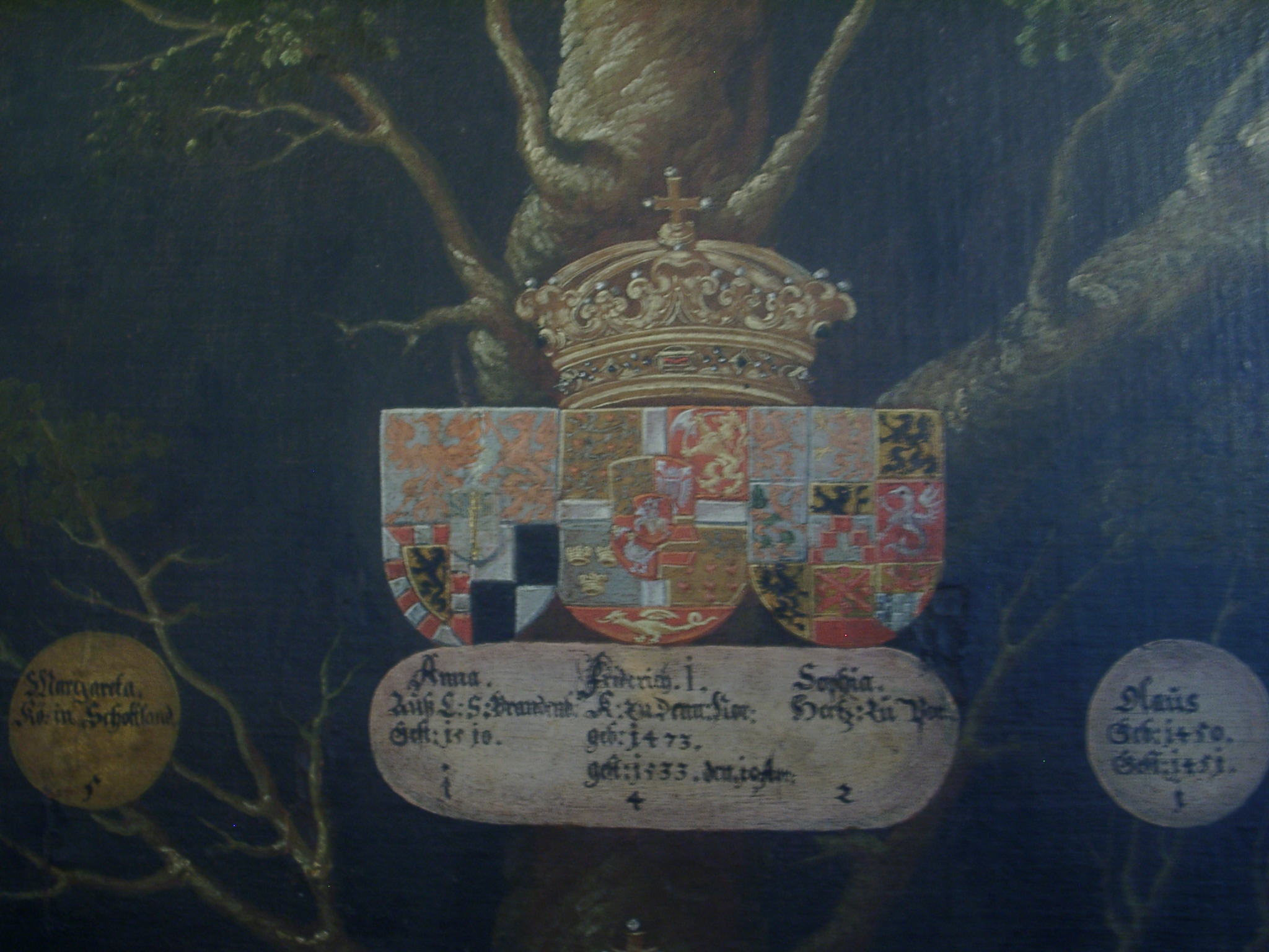 Schloss Eutin This picture has been placed in the public domain in honor of Michael Hart, founder of Project Gutenberg. 8 September 2011.